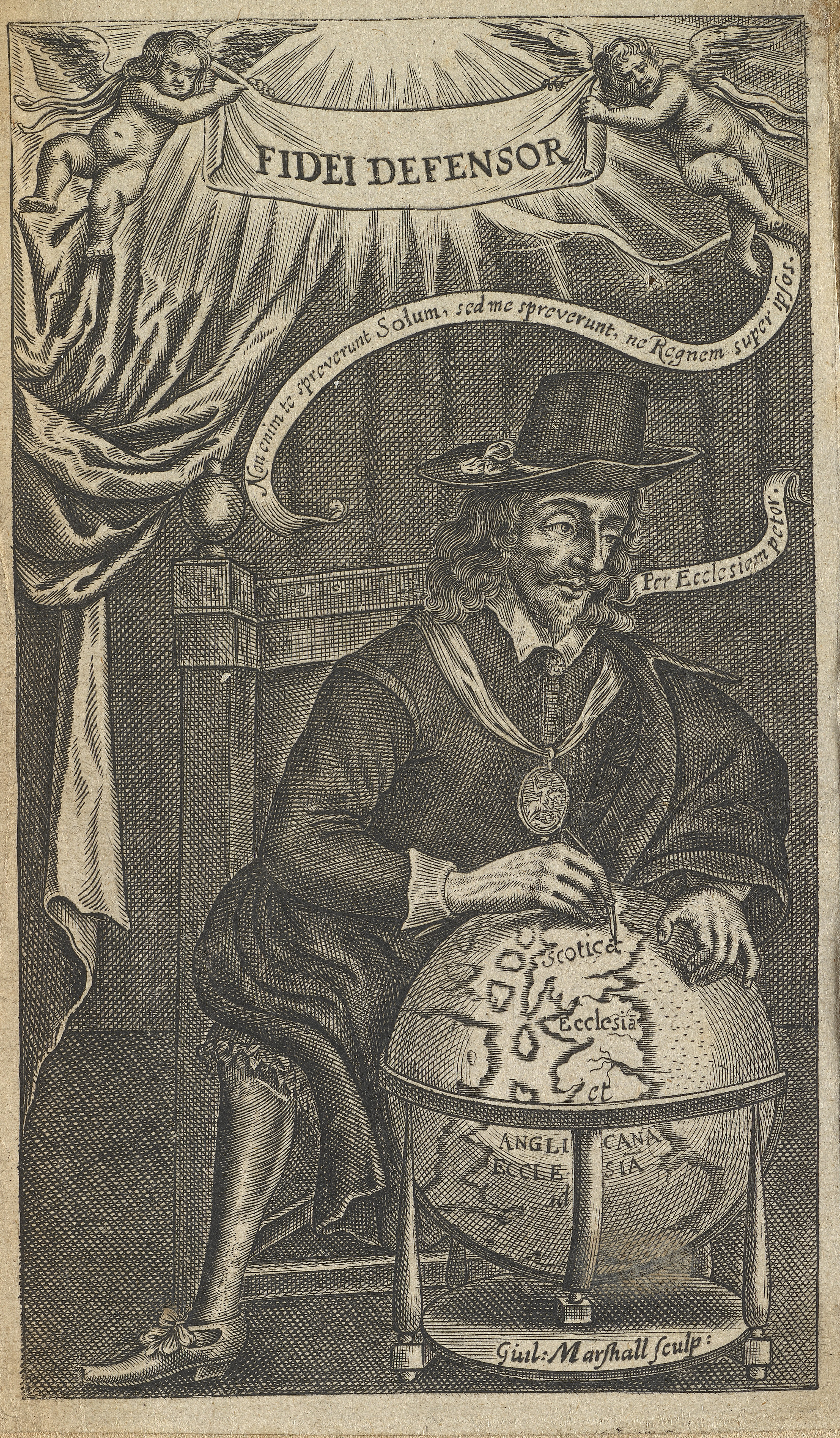 King Charles I. Engraving by W. Marshall, 1649. Iconographic Collections Keywords: King; Globe; Royalty; King Charles I; William Marshall